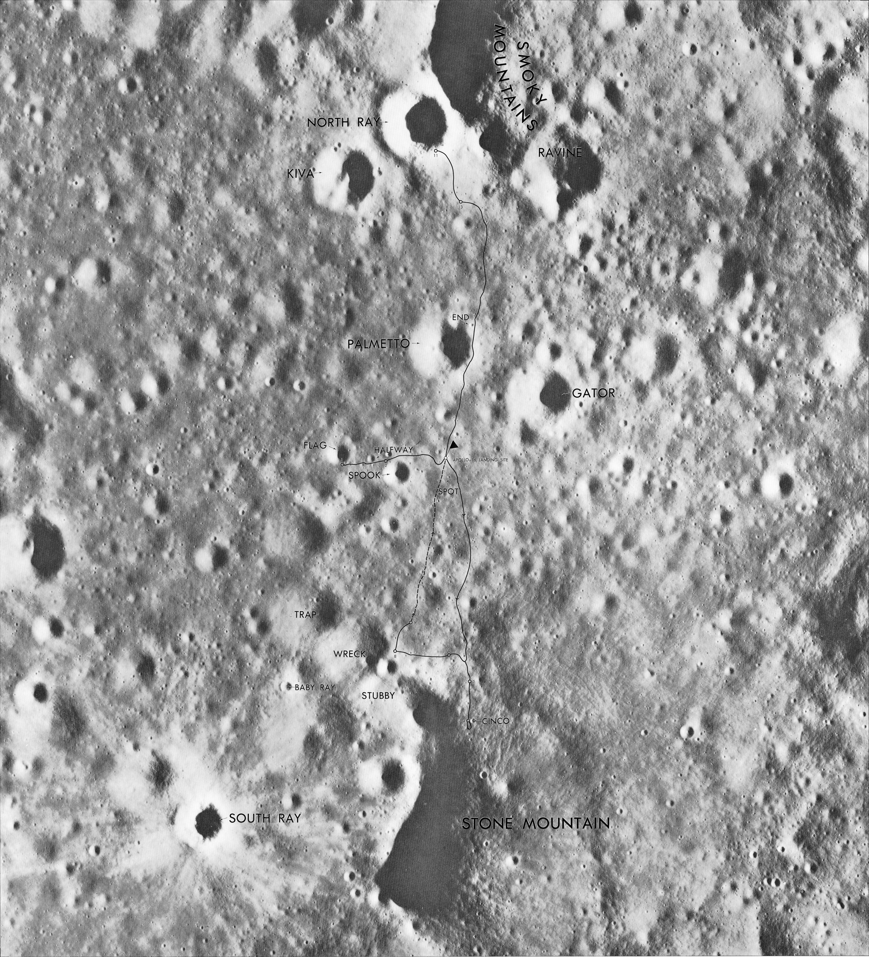 NASA map shows labeled features as well as traverses for the Apollo 16 landing site.